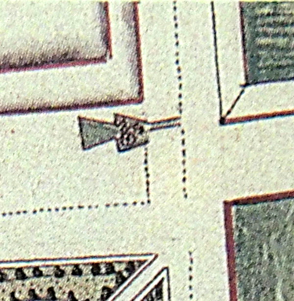 Machine hydraulique du château de Chaumot (plan)